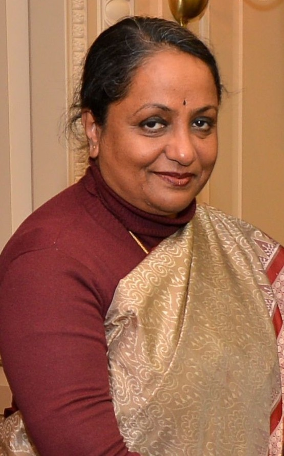 U.S. Secretary of State John Kerry poses for a photo with Indian Foreign Secretary Sujatha Singh before their meeting at the U.S. Department of State in Washington, D.C., on December 10, 2013. [State Department photo/ Public Domain]